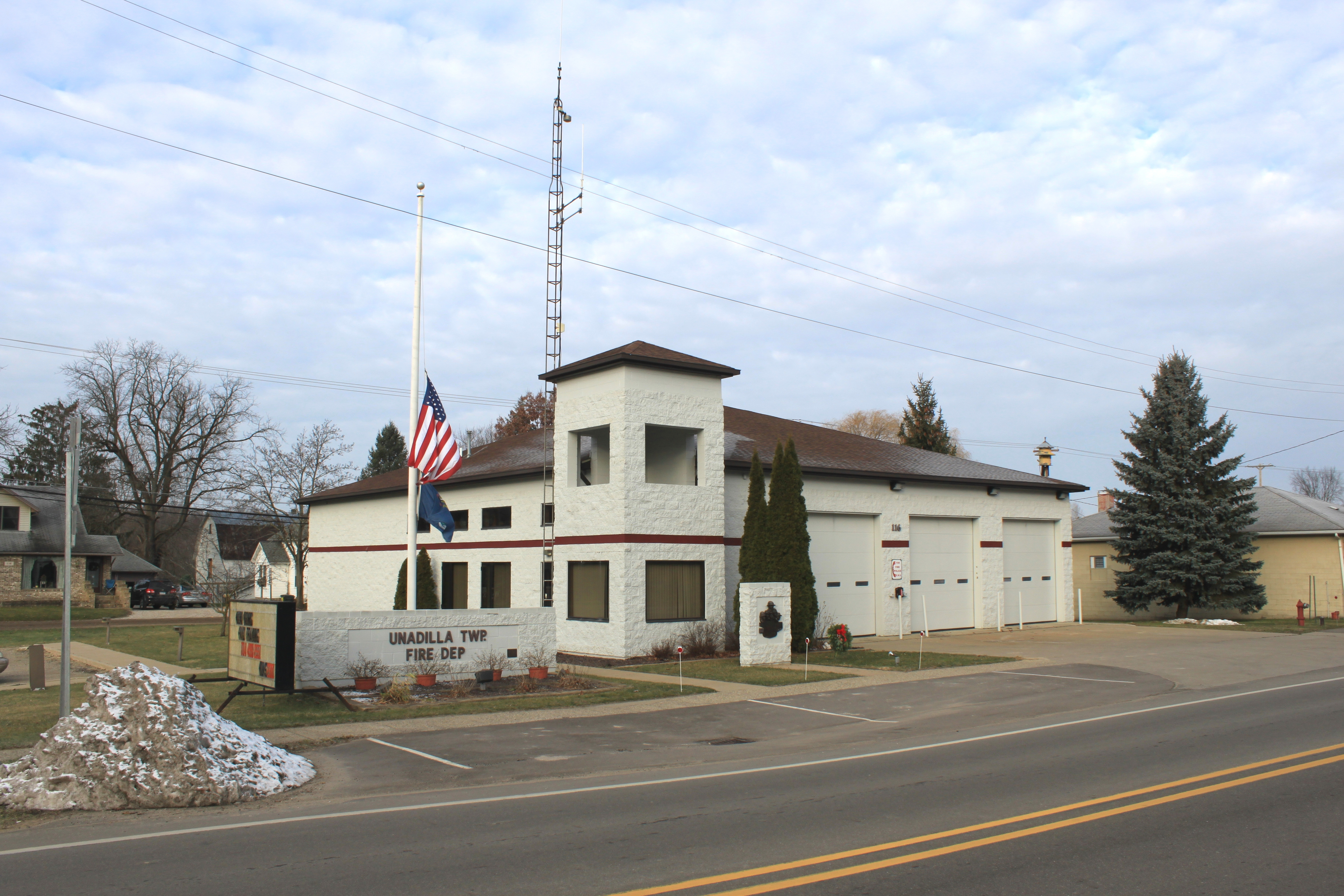 Unadilla Township Fire Department, 116 Main Street, Gregory, Michigan.